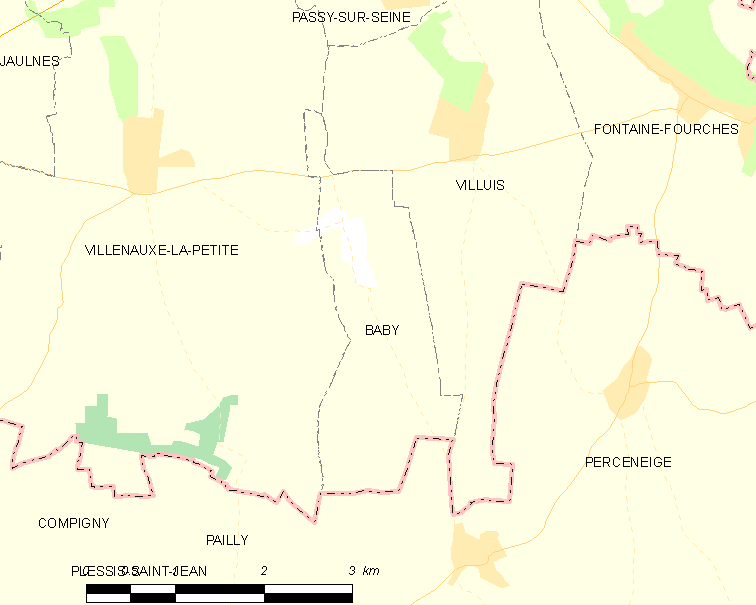 Map of French municipality Baby